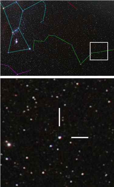 The top part of the image was adopted from 'Orion_above_the_VLT_.png', which is credited to ESO/Y. Beletsky. The image was rotated 211.2° clockwise, then cropping and adding lines to delineate the constellations. Orion is shown in blue, Eridanus in green, Lepus in violet and Taurus in red. Epsilon Eridani is located at the center of the white square outline. An enlarge view of this area is shown in the bottom half of the image, with the location of Epsilon Eridani marked by the intersection of the two lines. The bright star near the left center edge of the lower image is Delta Eridani.